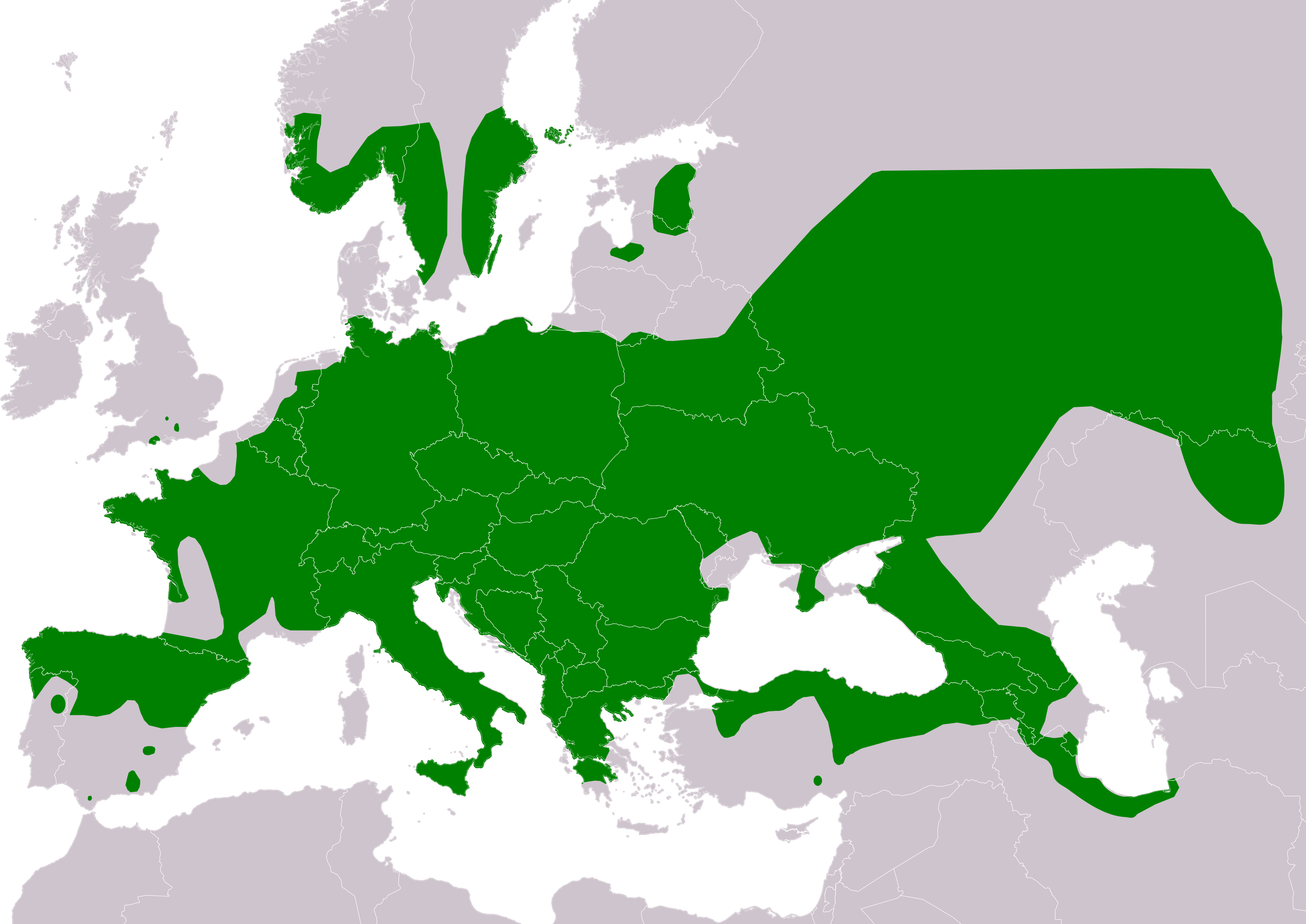 Distribution map of Smooth Snake (Coronella austriaca) according to IUCN version 2020.1 (Compiled by: IUCN CI 2017); key: Legend: Extant, resident (#008000)